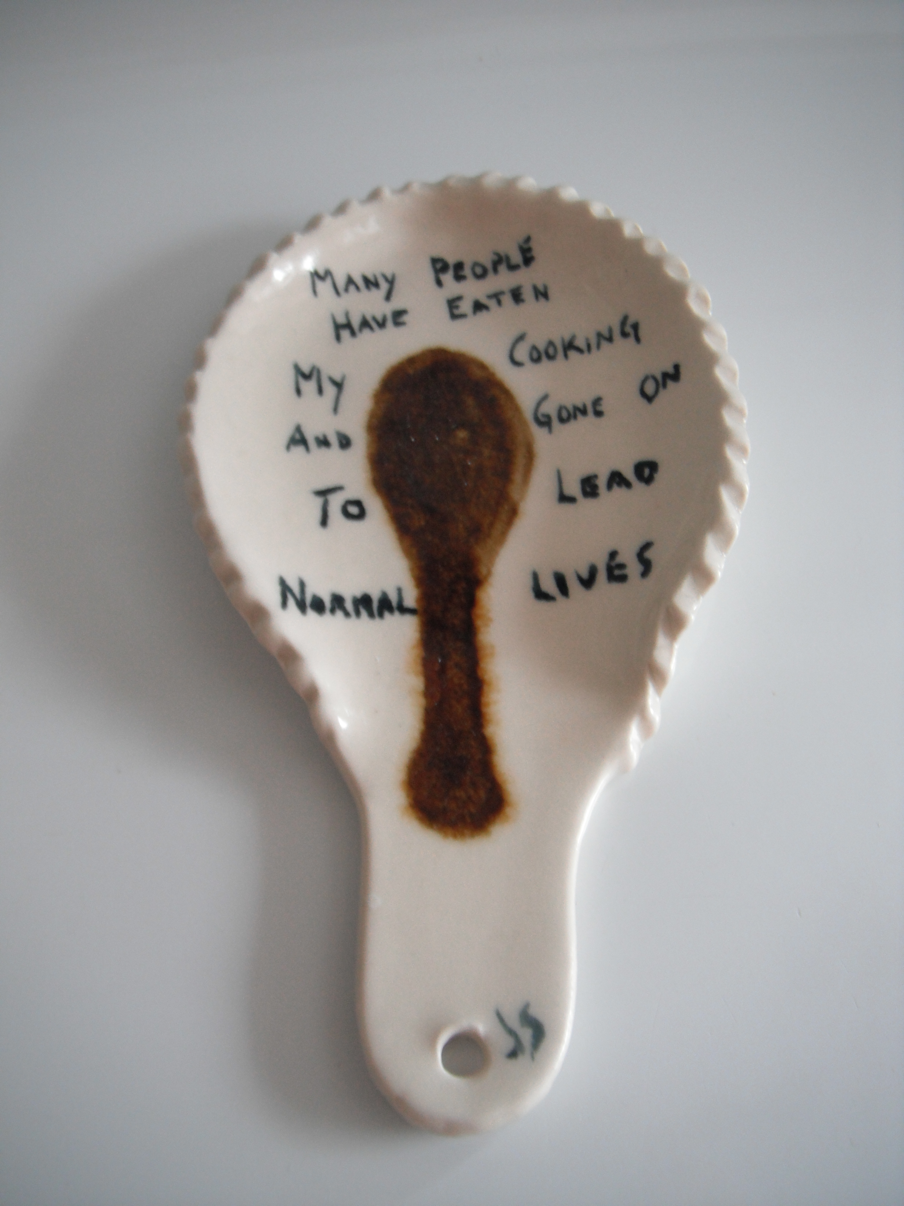 Mom got me this for Christmas, I still laugh when I see it, although I think it pertains more to her cooking then mine =O